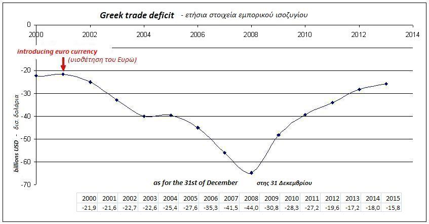 Greek trade deficit before and after introducing euro currency, as in the OECD data.